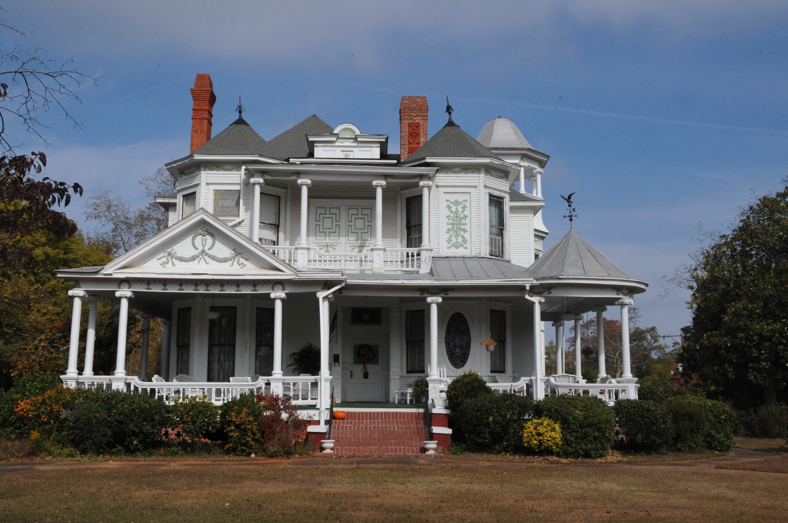 WOOD-SPANN HOUSE, CIRCA 1895 QUEEN ANNE AND ONE OF THE MOST BEAUTIFUL ON THE STREET301 W College St, Troy, AL